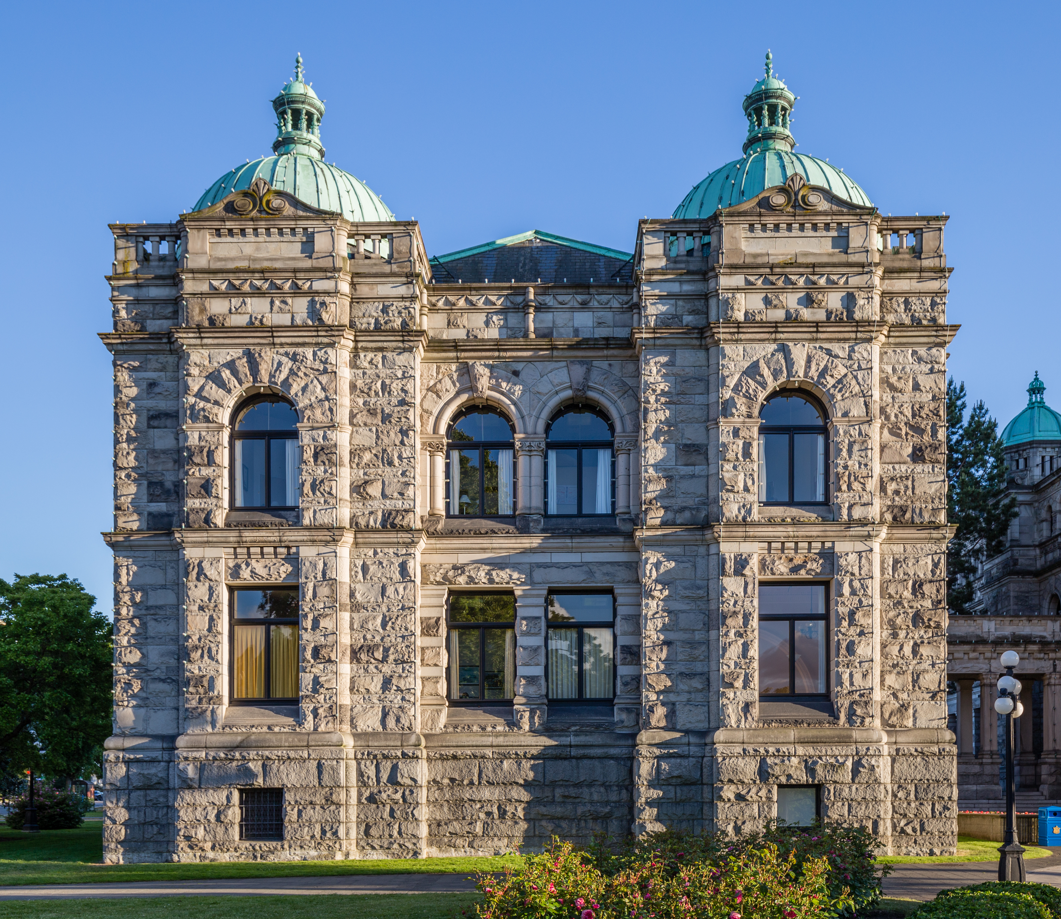 British Columbia Parliament Building, Victoria, British Columbia